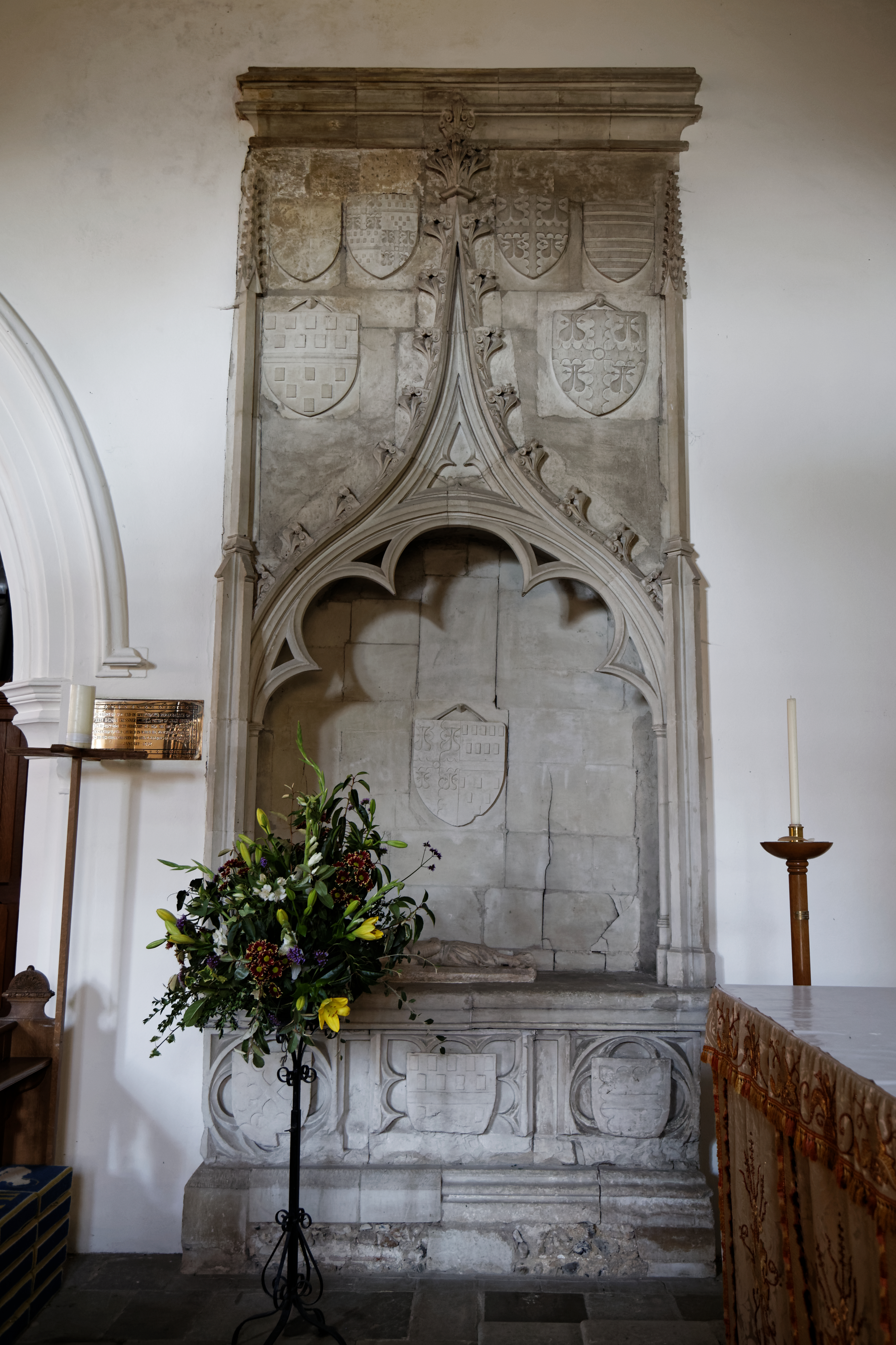 Monument in the chancel of St Mary the Virgin parish church, Little Easton, Essex, England, to Eleanor Bourchier, who died about 1400. It is a recess above a panelled plinth with above an arch with cinquefoil and crocketting, and an ogee device at the top ending in a finial. The crocketted side pinnacles spring from buttresses. The monument bears ten shields of arms, and on its plinth is a mid-13th-century effigy of a knight in mail armour.Software: RAW file lens-corrected, optimized and converted to JPEG with DxO OpticsPro 10 Elite, and likely further optimized and/or cropped and/or spun with Adobe Photoshop CS2.